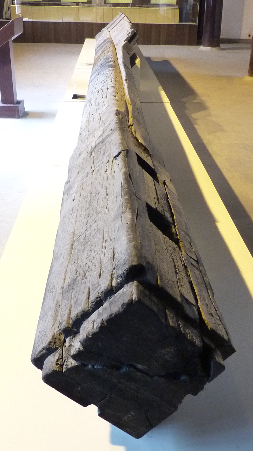 According to the label, this is the Great Tiller of an ancient ship, found in the 6th working pool in 2004. Displayed in exhibition hall no. 3 of the museum of the Treasure Boat Shipyard in Nanjing.